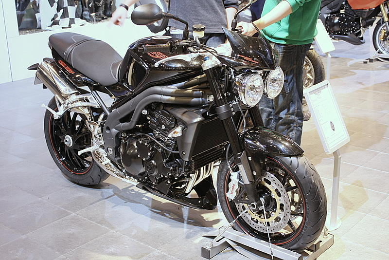 Triumph Speed Triple 15th anniversary